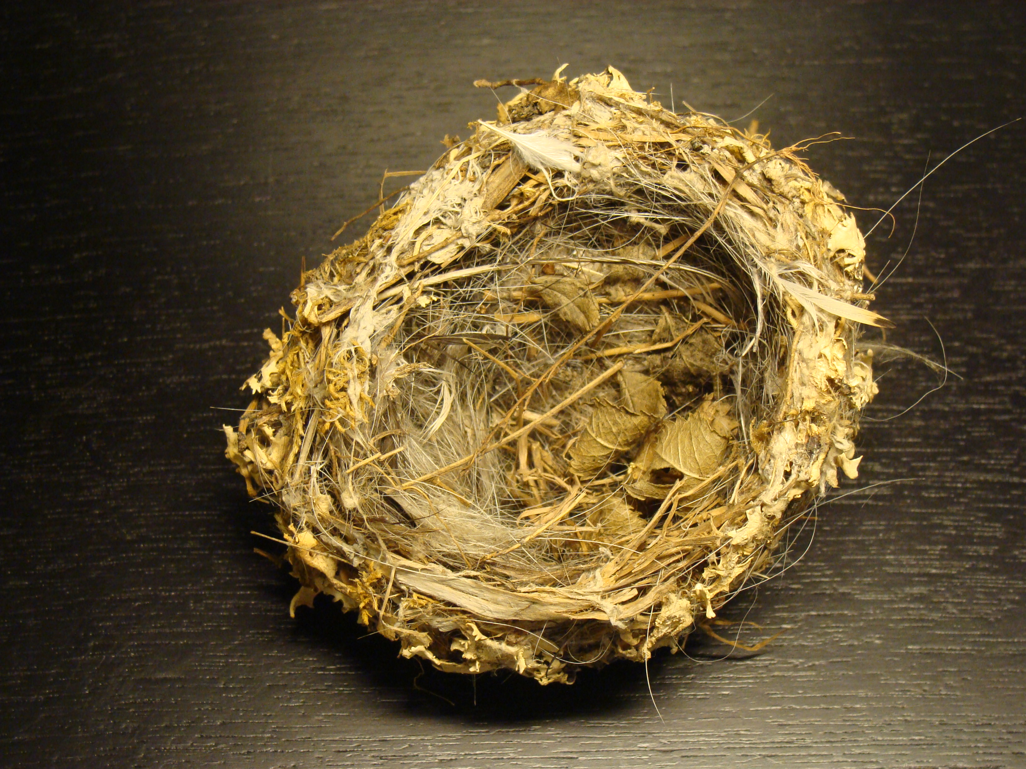 Regulus ignicapillus nest in CosmoCaixa, Barcelona.